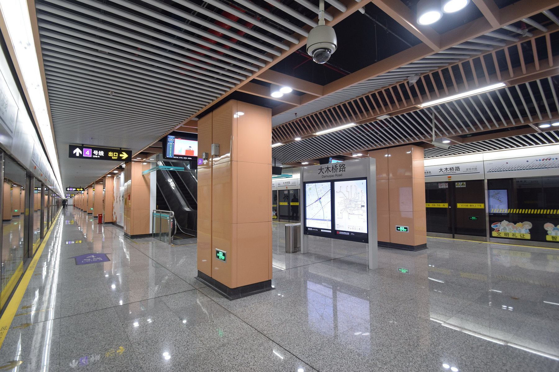 Line 12 Platform of Damuqiao Road Station, Shanghai Metro